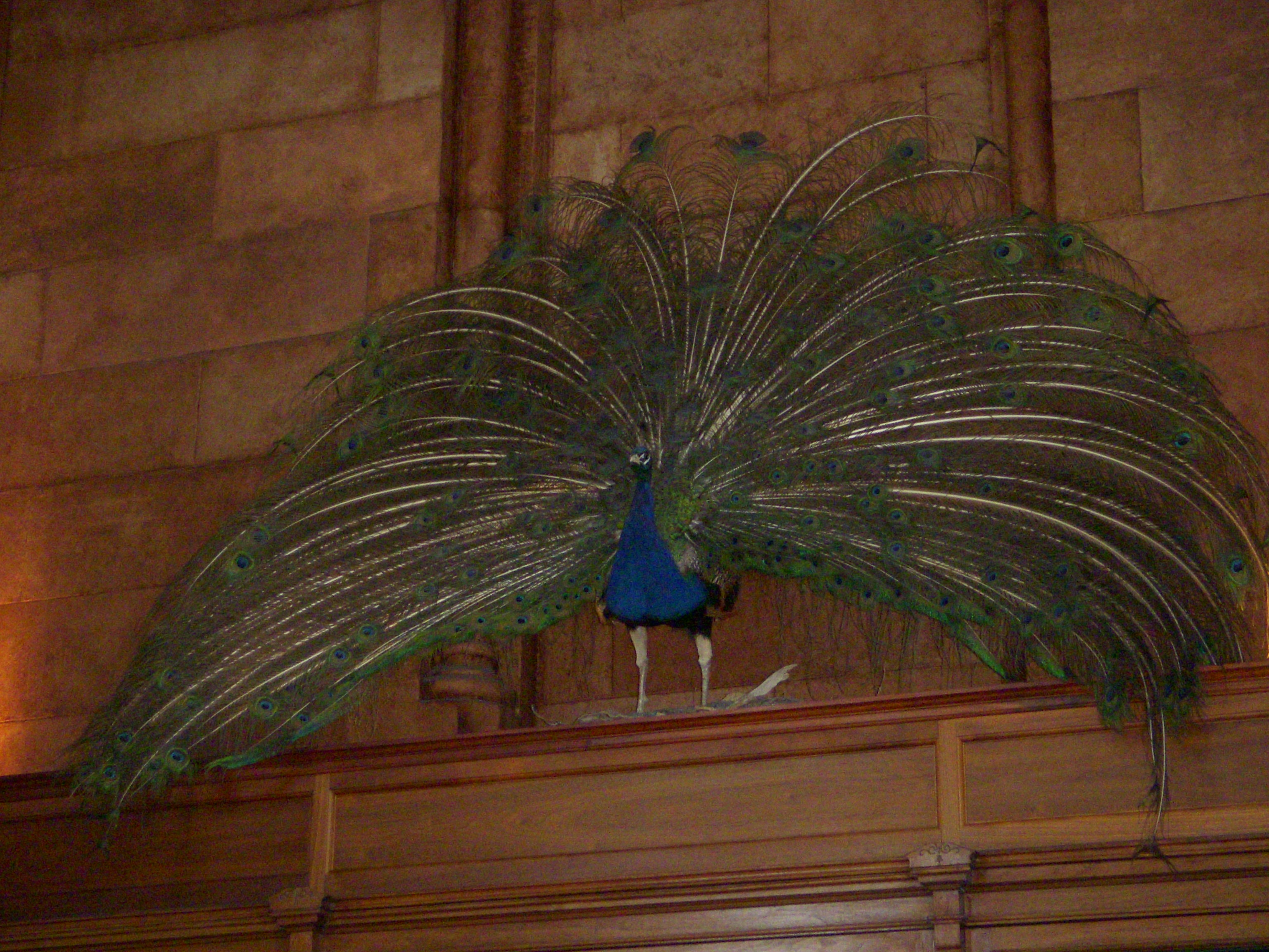 A taxidermied peacock on display at the Smithsonian Institution